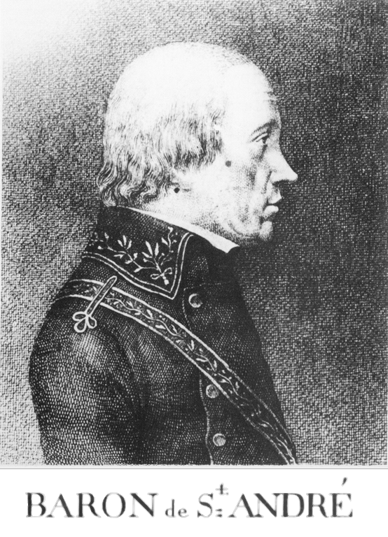 Jeanbon Baron de St. André, prefect of Mainz (1802 – 1813), Germany, contemporary copper engeraving (retouched version: background spots removed; lower sketch-border and text straightened)